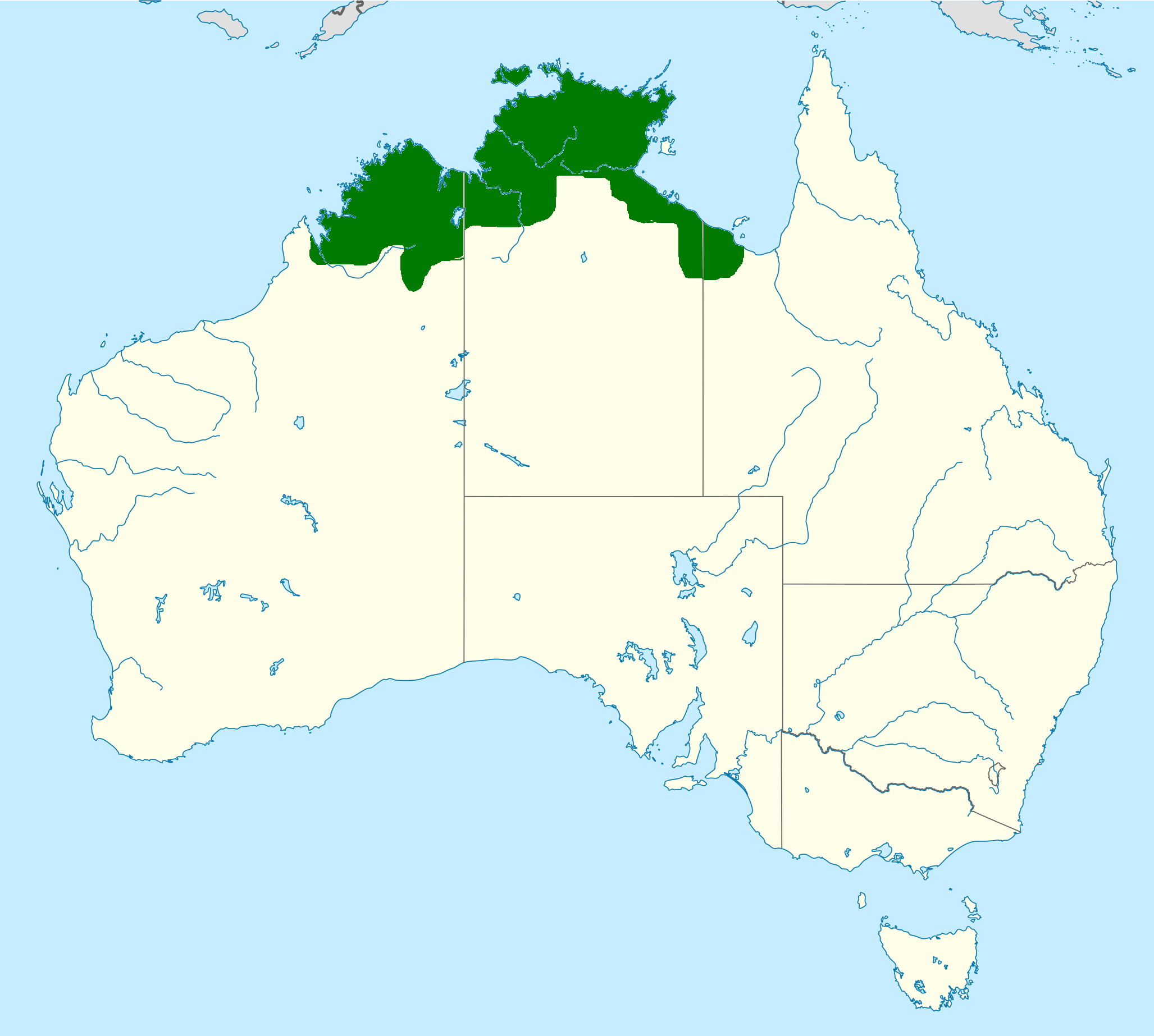 Range map of northern rosella (Platycercus venustus). Base map: File:Australia location map.svg. Data from Higgins, P.J. (1999) Handbook of Australian, New Zealand and Antarctic Birds. Volume 4: Parrots to Dollarbird, Melbourne, Victoria: Oxford University Press, p. 365 ISBN: 0-19-553071-3.